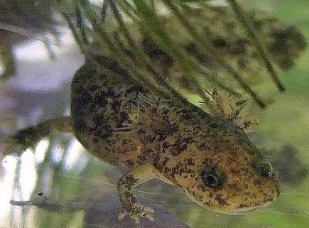 Species:Hynobius kimurae (Dunn, 1923) Cropped from Image:Hynobius kimurae.jpg. Original description and license: ---- * *Location: Chuo-ku, Kobe, Japan *Other photos: The source image from has been adjusted in brightness and contrast.